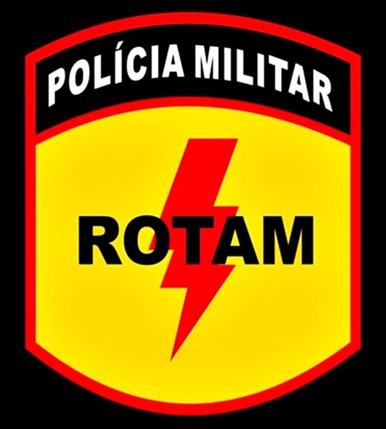 ROTAM-PMGO Coat of Arms